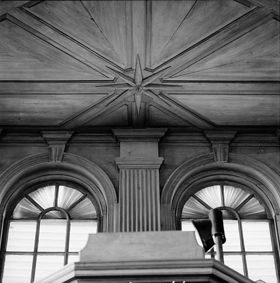 Detail of sounding board in the Old Ship Church — in Hingham, Massachusetts. Architecture of Colonial Massachusetts. Image: Historic American Buildings Survey of Massachusetts, Library of Congress, Washington, D.C.